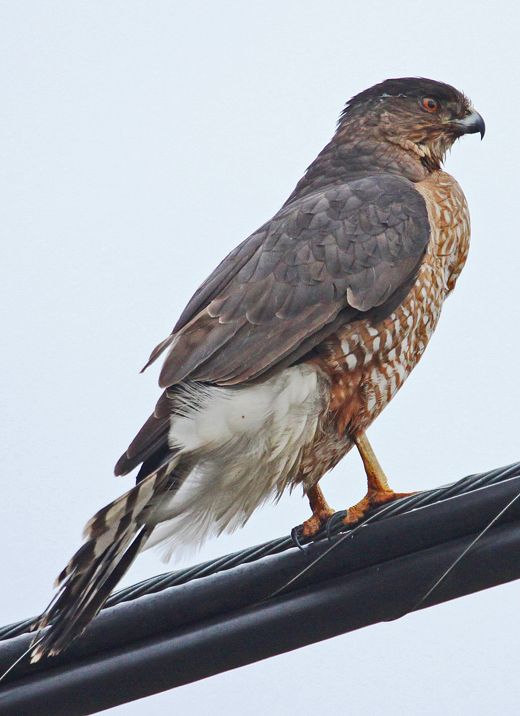 Coopers Hawk - Reifel Sanctuary, Ladner, British Columbia.